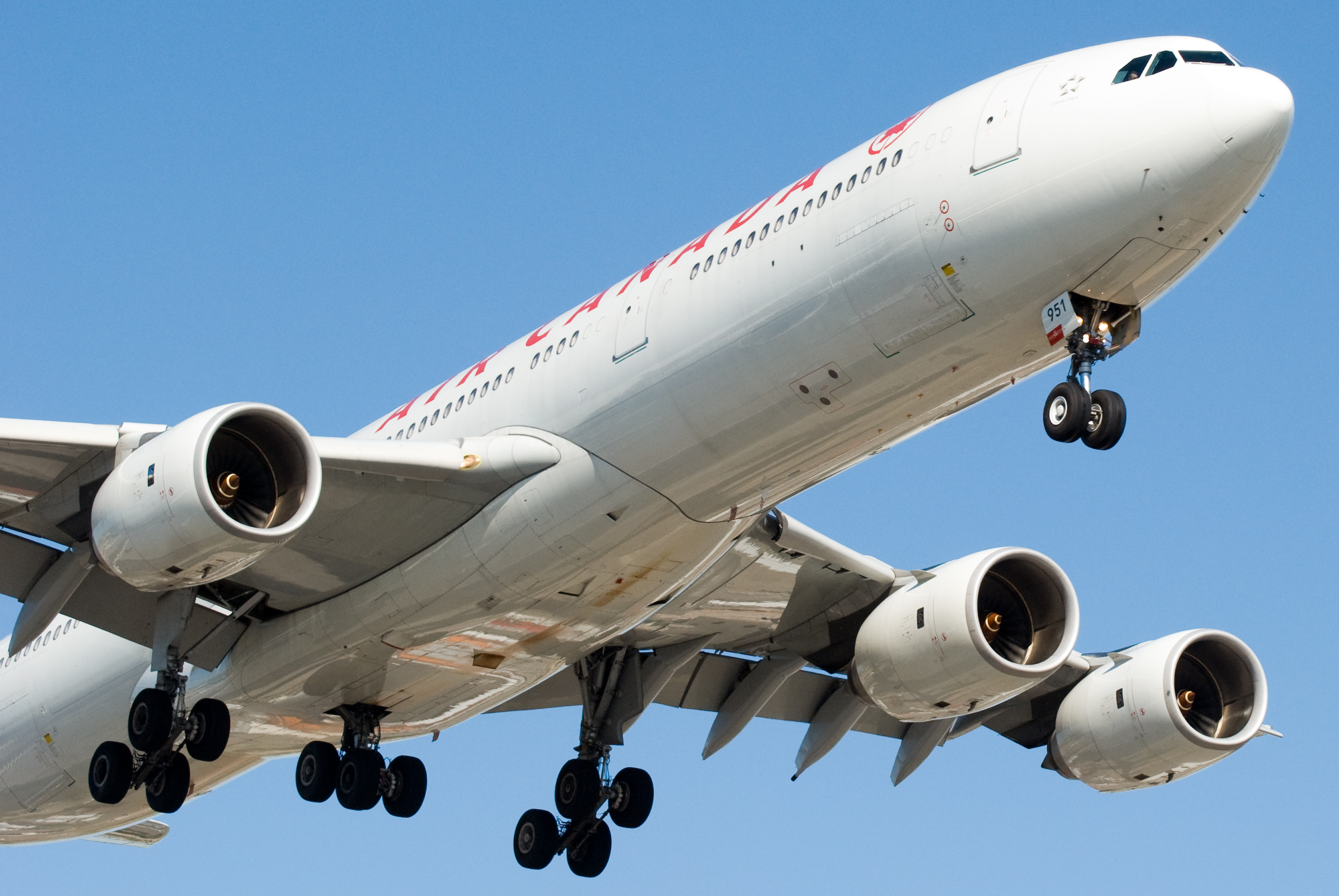 Air Canada A340-500 from Shanghai landing Toronto-Pearson